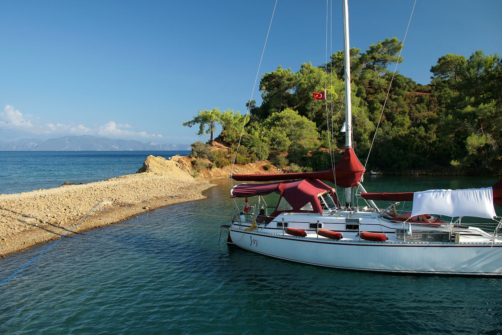 Yassıca Adası is an island in Turkey, located between Körtaş Adaları and Pırnallı Adası, and is also nearby to Çiçek Adaları and Akça Adası.